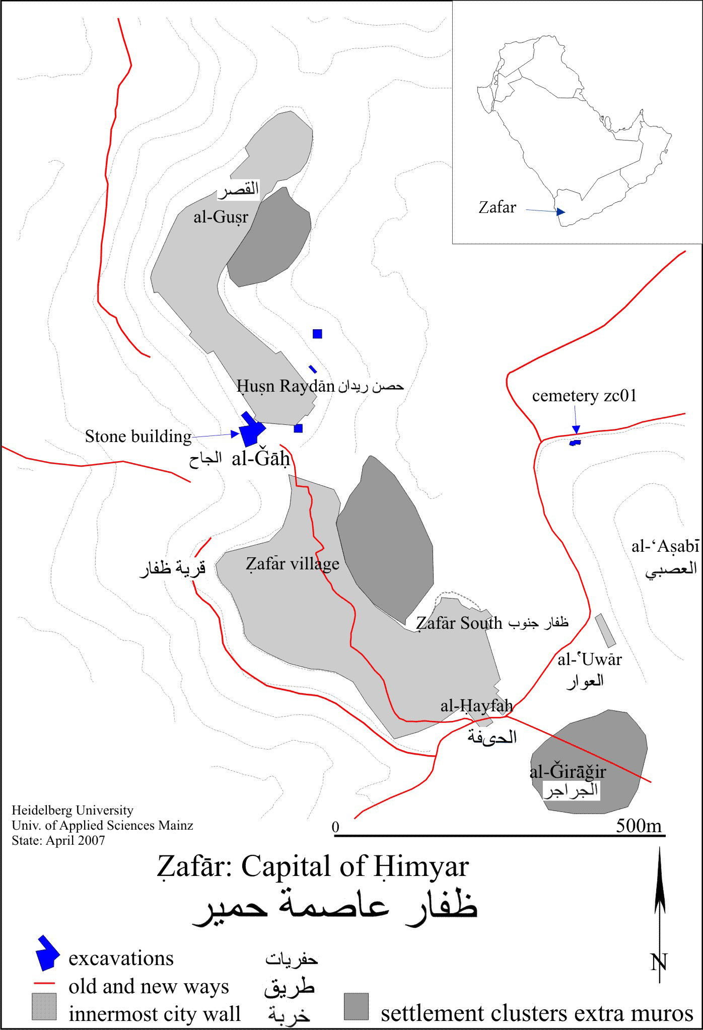 survey map of the archaeological site Zafar, Yemen, capital of the Himyarite tribal confederacy.